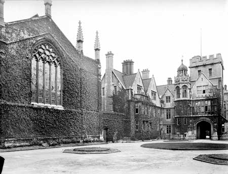 New Quad, Brasenose College, Oxford, photographed by Henry Taunt in 1909. On the left is the chapel, built in the Commonwealth period in the 1650s.